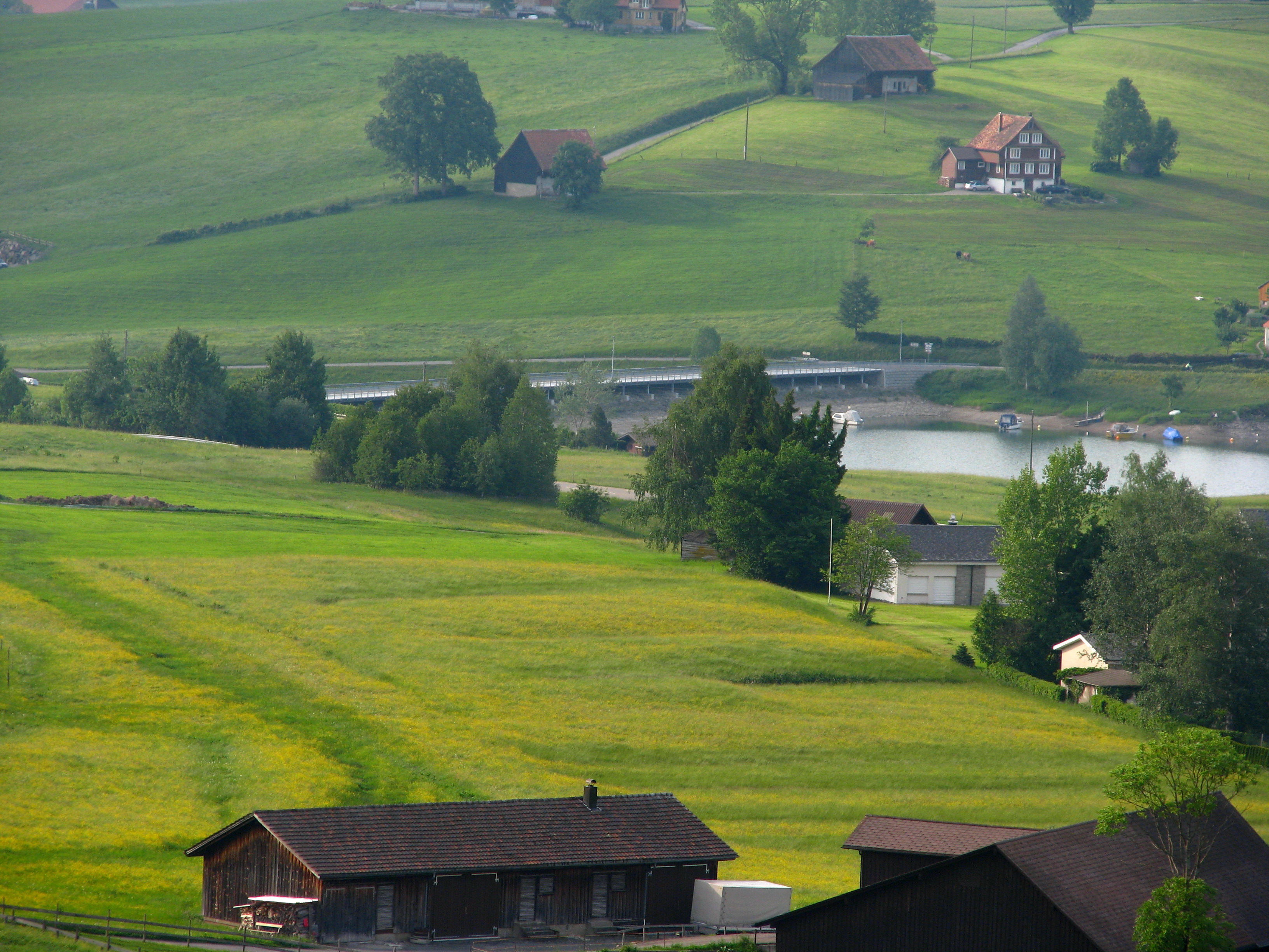 Sihlsee dam/viaduct and effluence of the Sihl river in Einsiedeln (SZ) in Switzerland